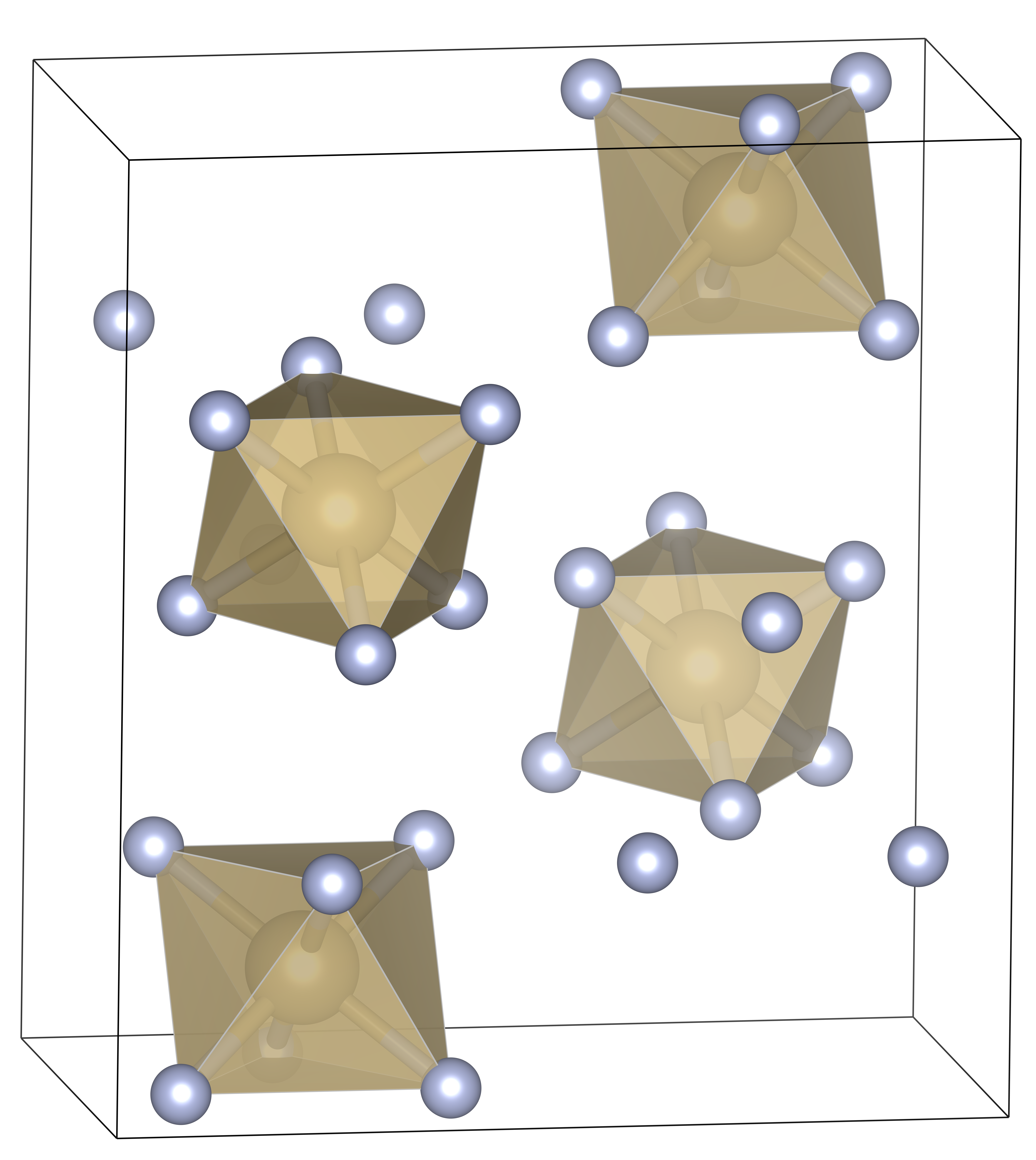 Unit cell of osmium(VI) fluoride. Created with VESTA. Source of crystal structure